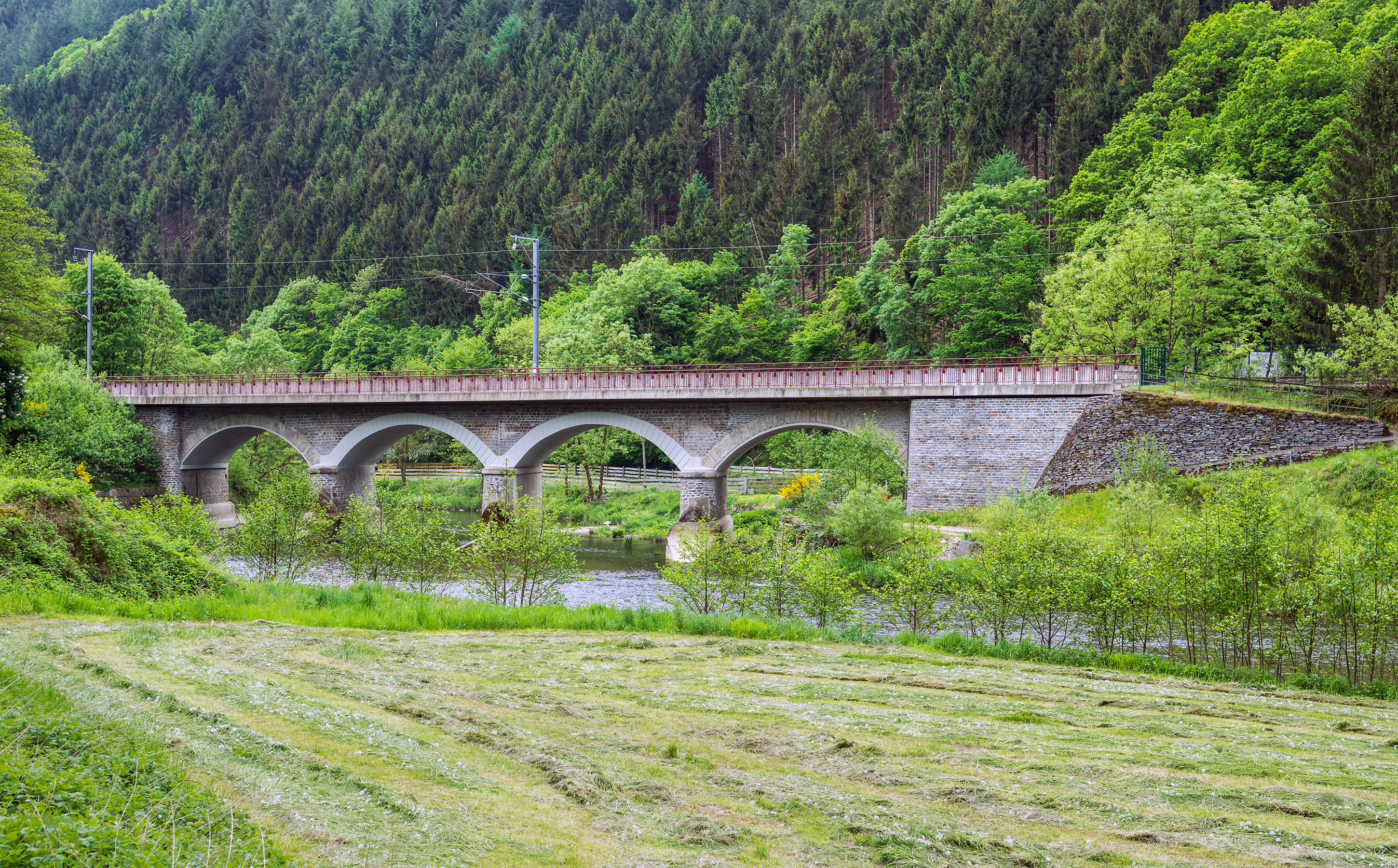 The railway bridge over the Sûre at Brahmillen